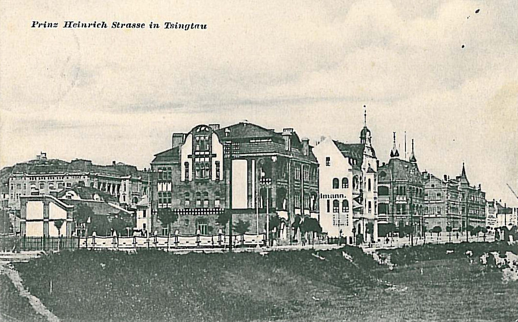 historical view of Qingdao